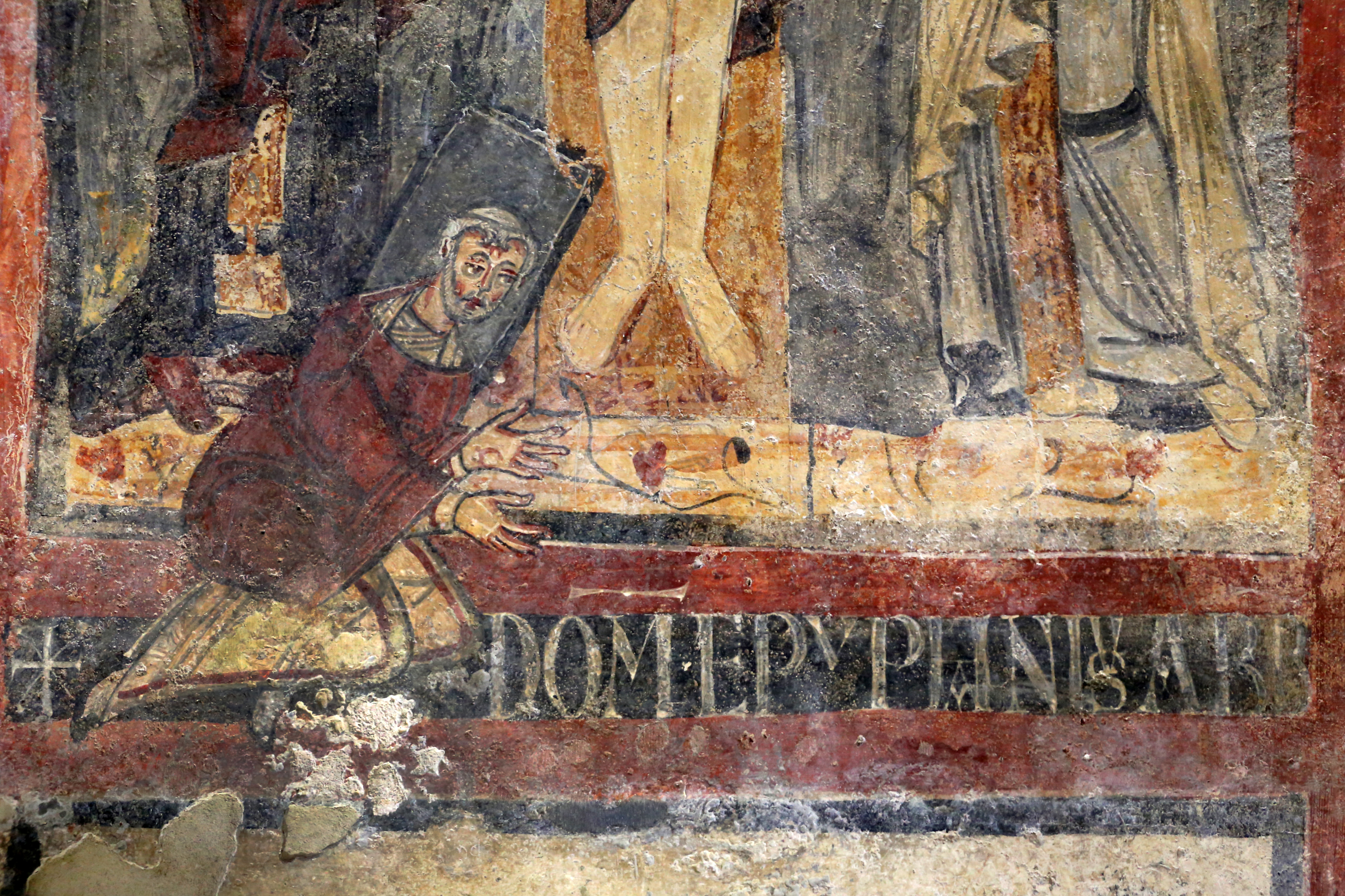 Epifanio Crypt